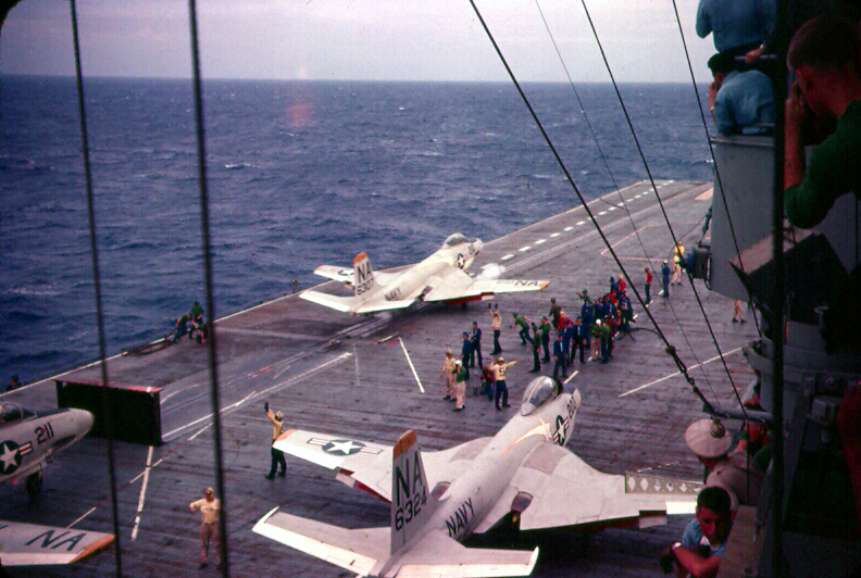 U.S. Navy McDonnell F2H-3 Banshees from Fighter Squadron 52 (VF-52) "Knightriders" being launched from from the aircraft carrier USS Ticonderoga (CVA-14), in 1958. VF-52 was assigned to Air Task Group 1 (ATG-1) aboard the Ticonderoga for a deployment to the Western Pacific from 4 October 1958 to 16 February 1959.